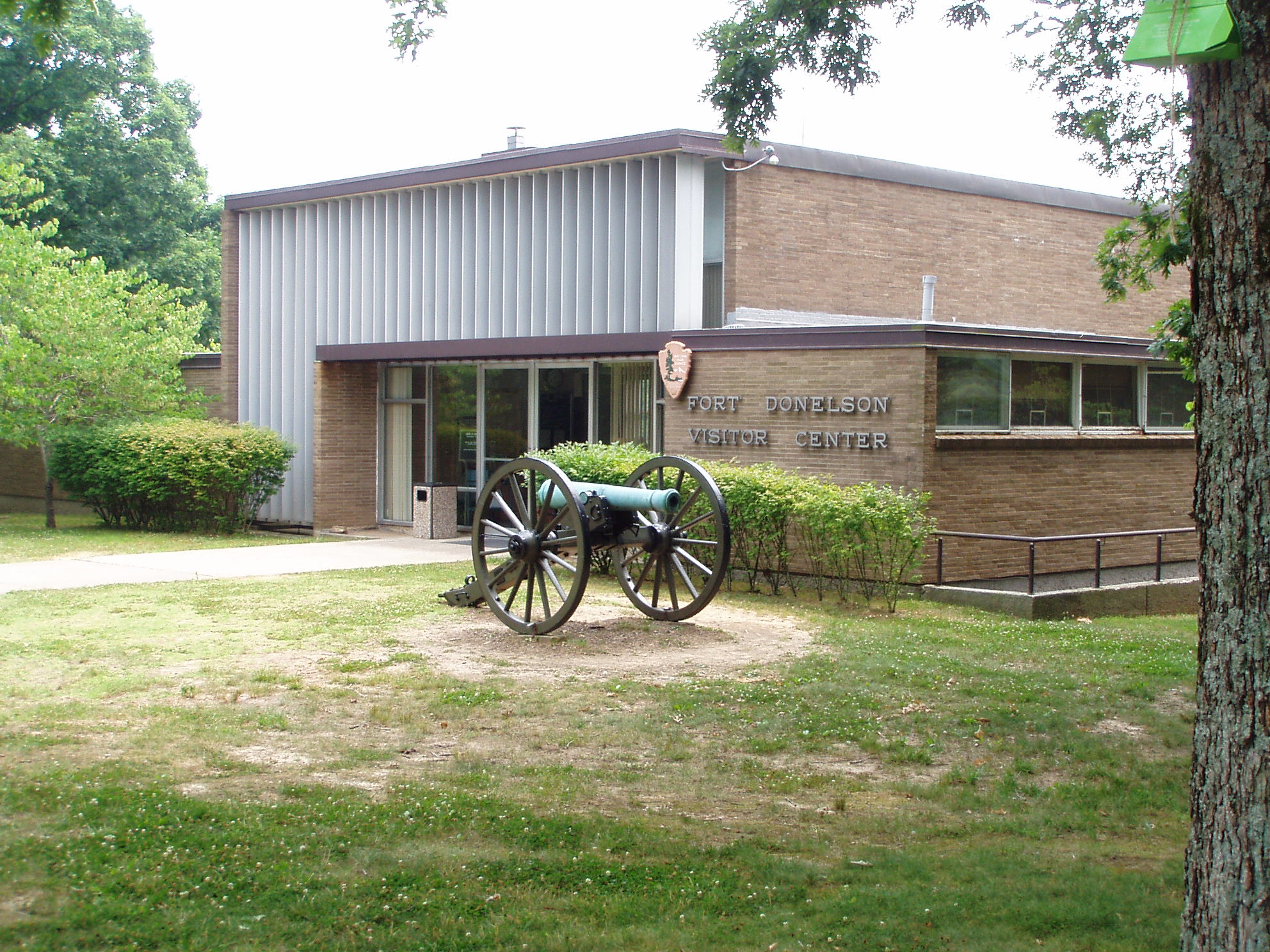 Visitor Center at of Fort Donelson National Battlefield.